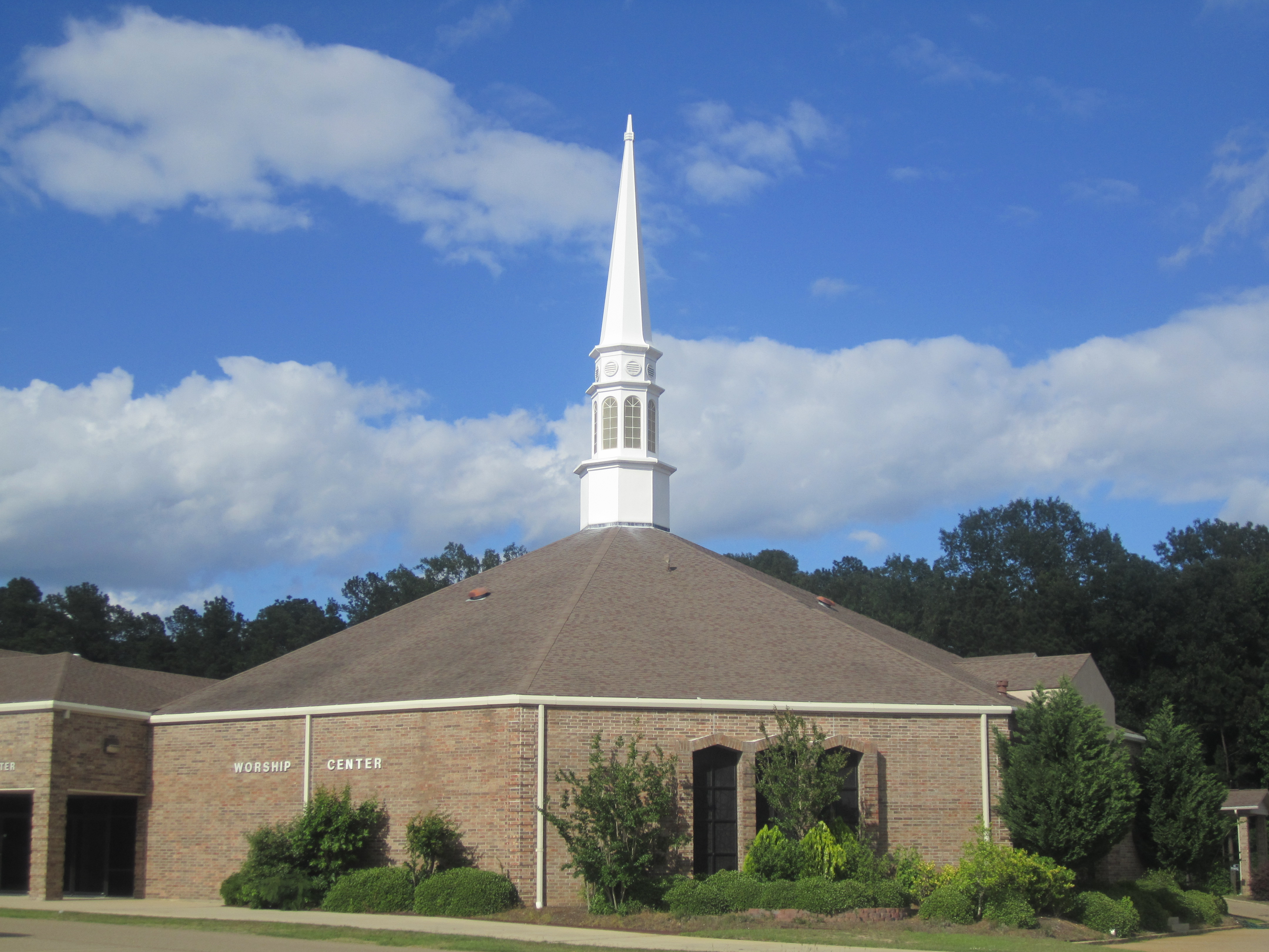 I took photo of West Side Baptist Church in El Dorado, AR, with Canon camera.